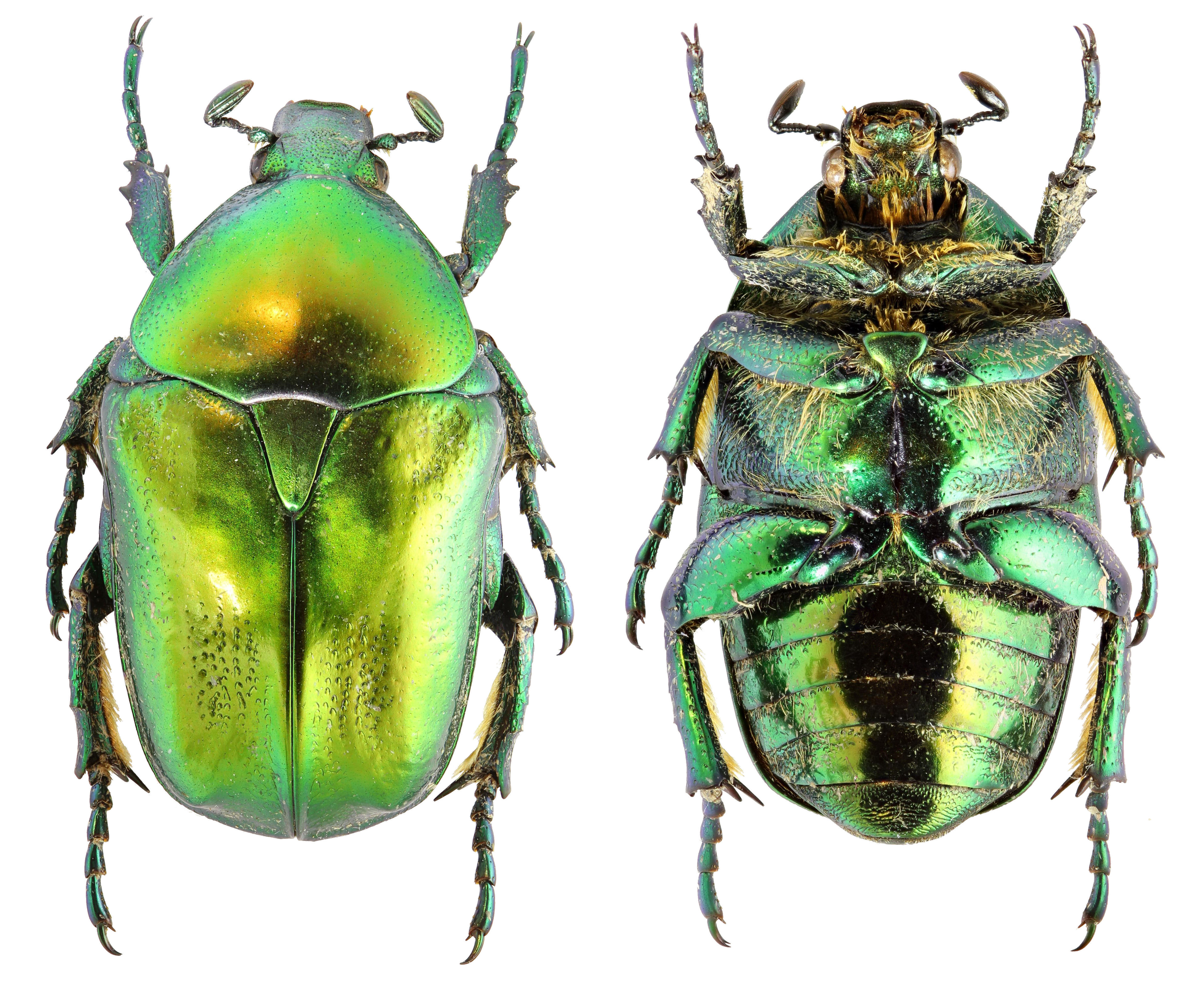 Protaetia affinis. Dorsal & ventral habitus. Focus stacking montage. Edited.